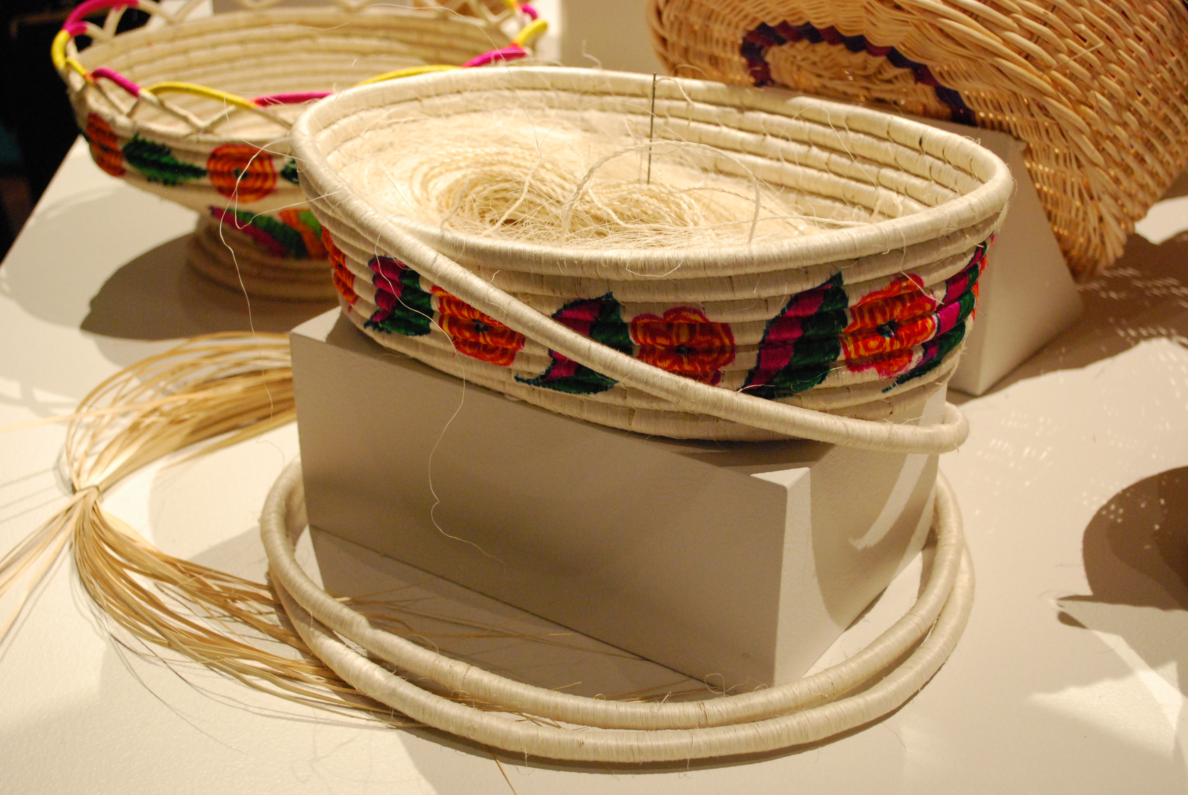 Example of a coil basket in progress from the state of Hidalgo as part of a temporary exhibit about the state at the Museo de Arte Popular, Mexico City